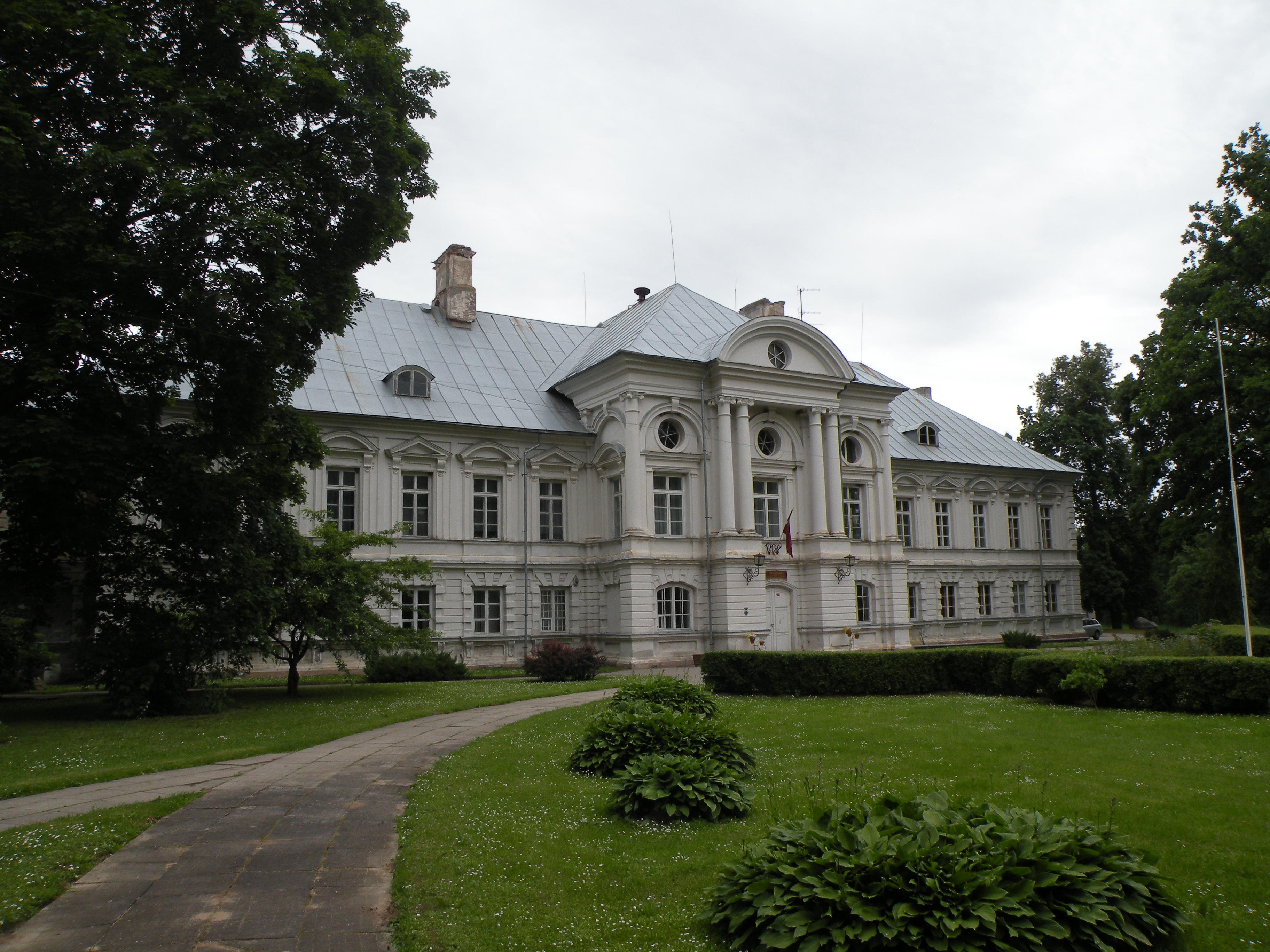 The Late Baroque style Zala palace in Latvia was built by Duke Ernst Jochan Bierons in 1768-1775. Project by architect Severin Yensen